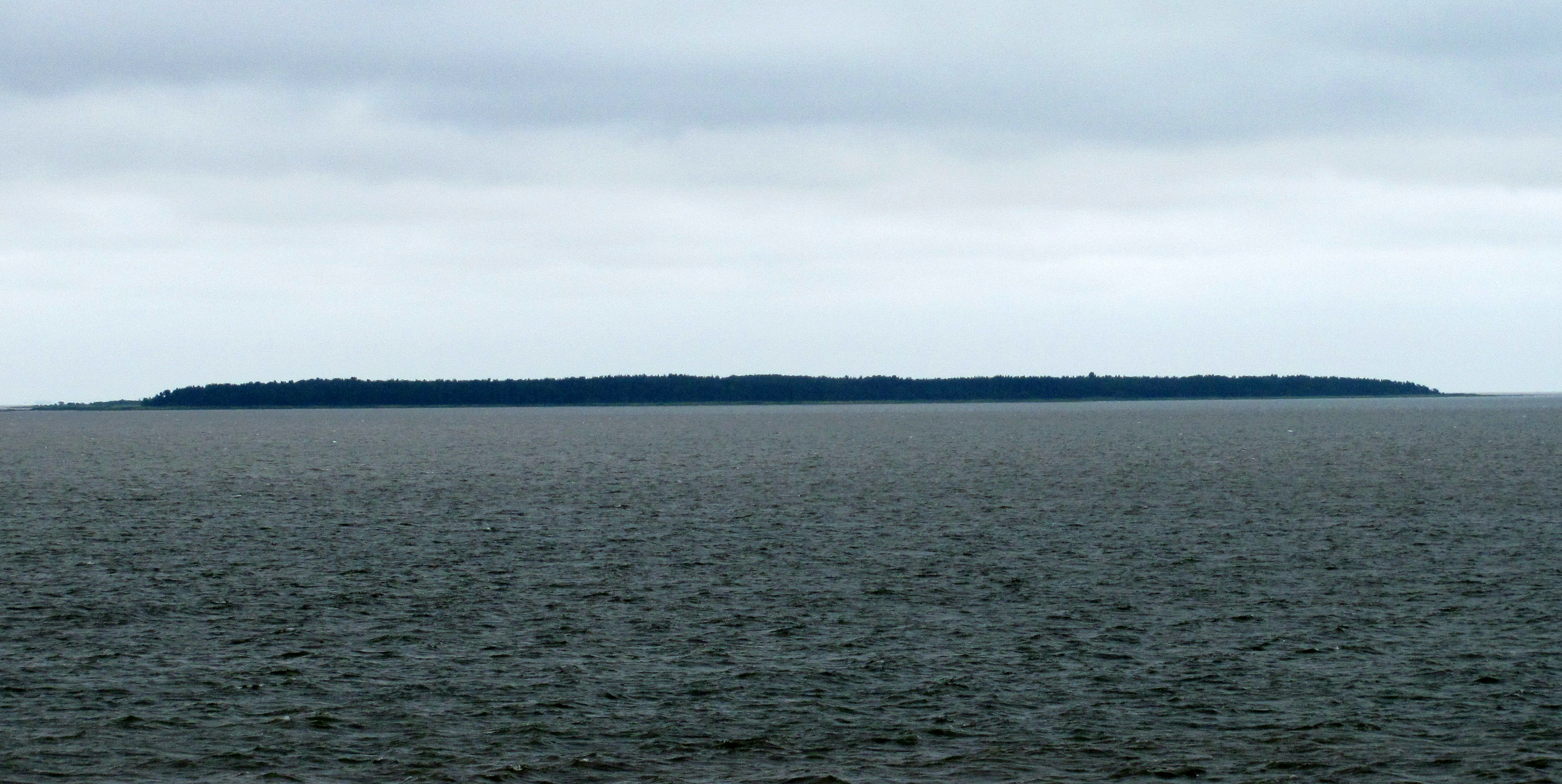 Heinlaid from port Heltermaa, Hiiumaa.